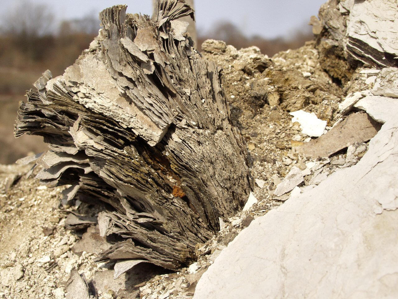 Alginate seaweed forming leaves